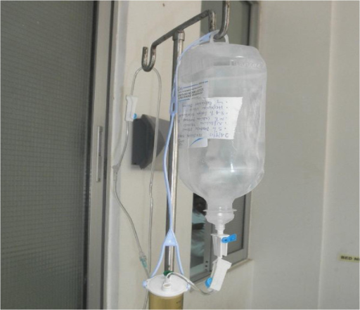 Peritoneal dialysis fluid made at bedside using 250ml of 5% dextrose solution, 750ml of 0.9% normal saline, 40ml of 8.4% sodium bicarbonate, 7.5ml of 10% calcium gluconate, 1000U of heparin, and 250mg of ceftriaxone.